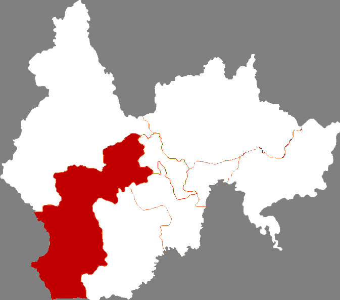 Location of Antu county in Yanbian Korean Autonomous Prefecture, China